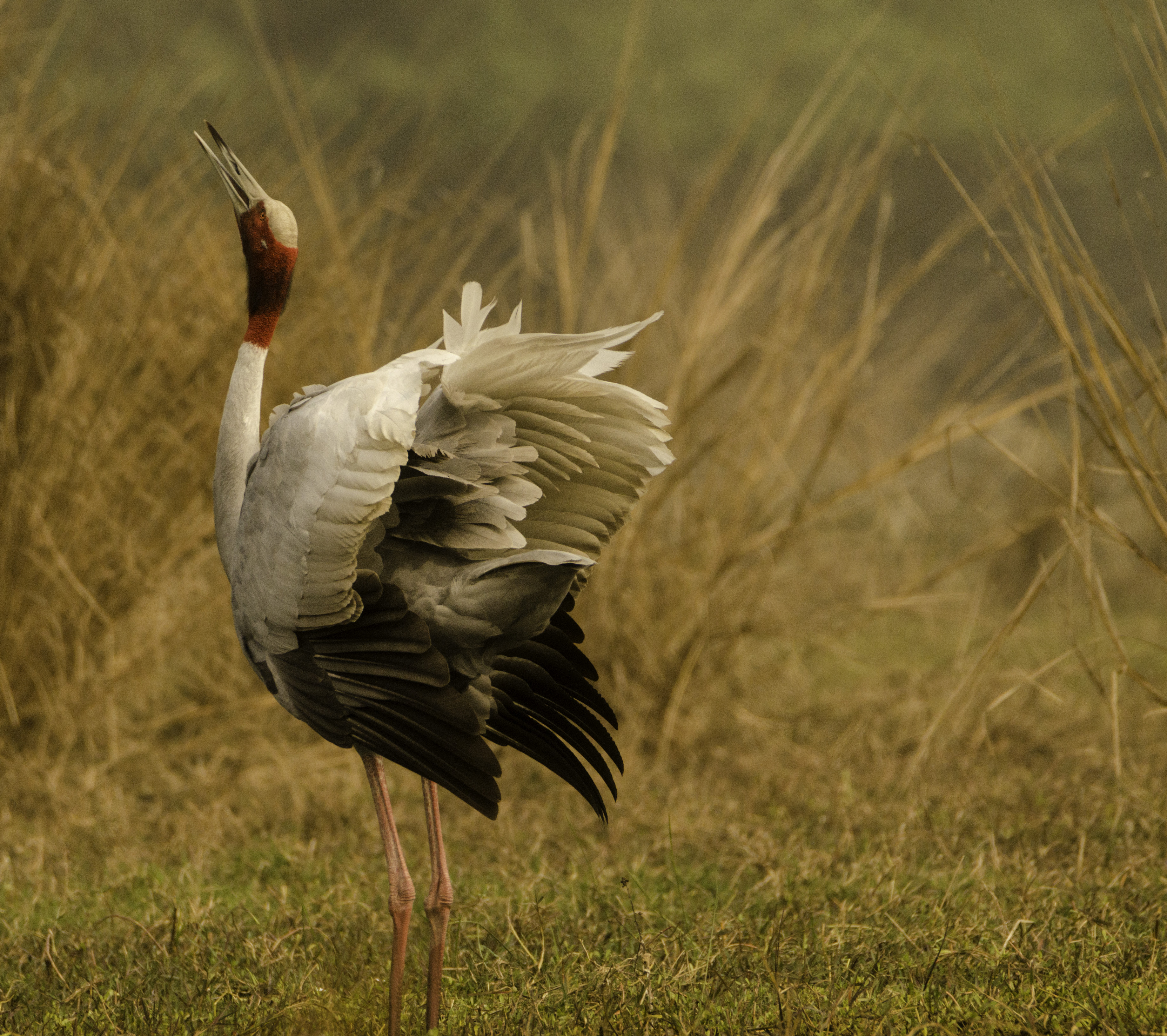 While walking through the Keoladeo National Park, Rajasthan, India, I saw a Sarus Crane chirping.